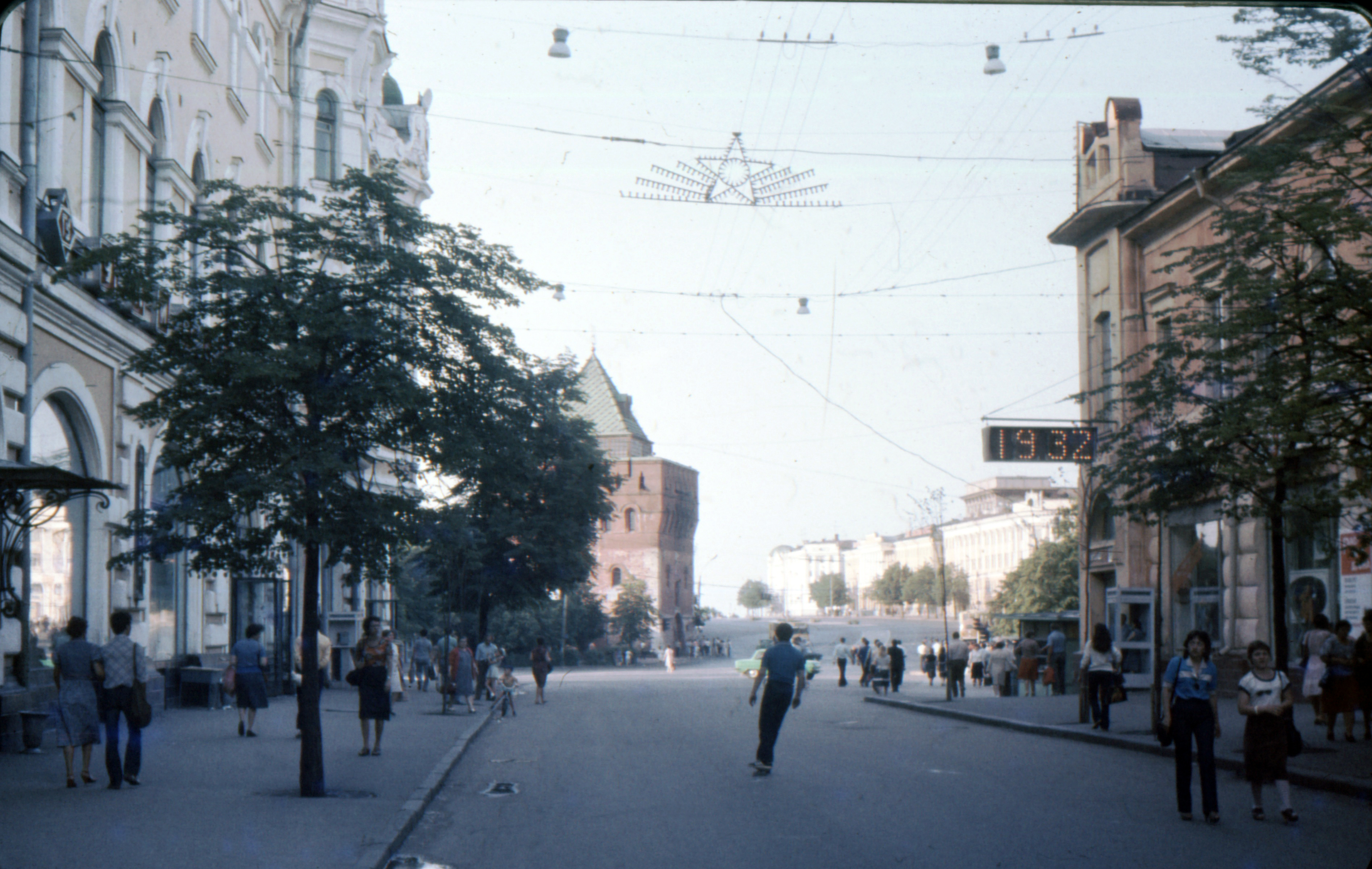 Gorky City. Sverdlov Street and Minin Square